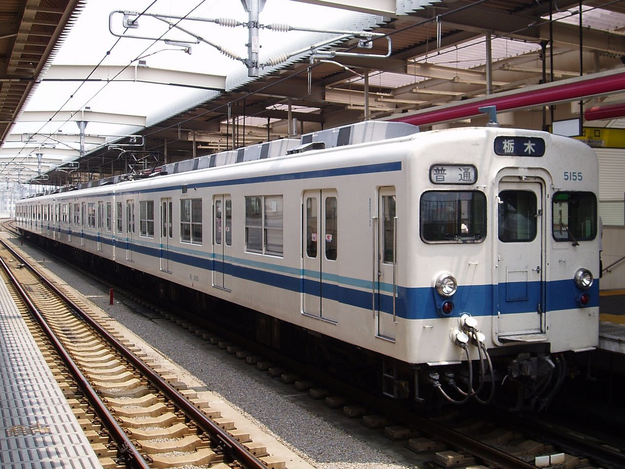 Tobu 5050 series EMU set 5155 at Tochigi Station